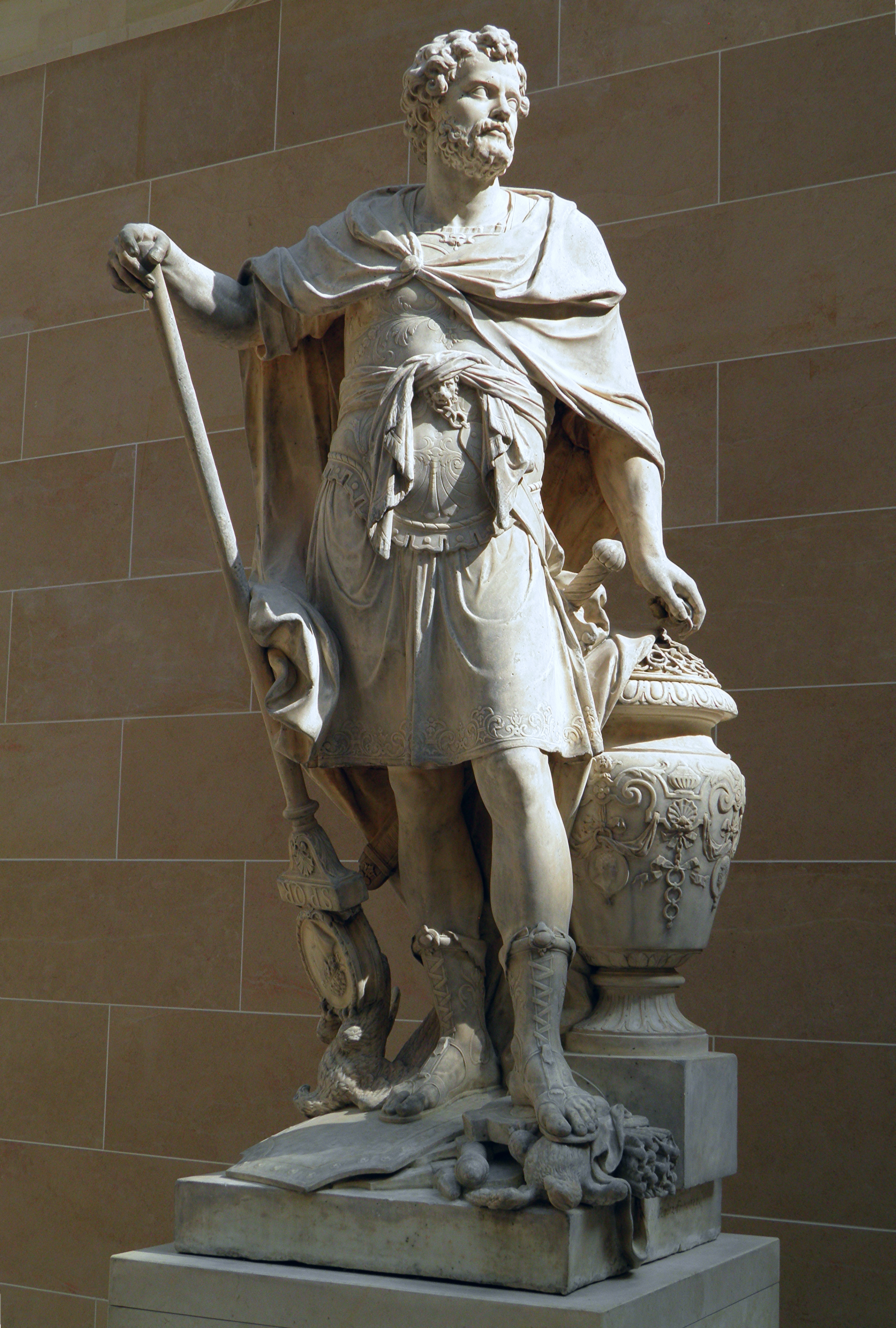 Hannibal Barca (by Sébastien Slodtz) counting the rings of the Roman knights killed at the Battle of Cannae (216 BC), Marble, 1704, from the Gardens of the Tuileries, Louvre Museum